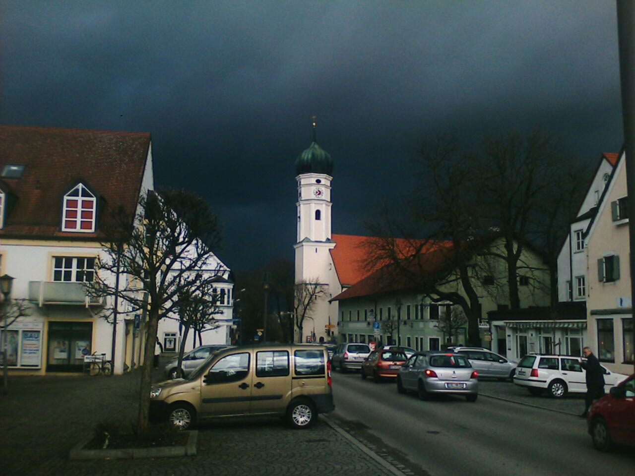 St. Magaret Church, Markt Schwaben, county Ebersberg, Bavaria, Germany. Just 10:45 am, before storm Emma hits the town